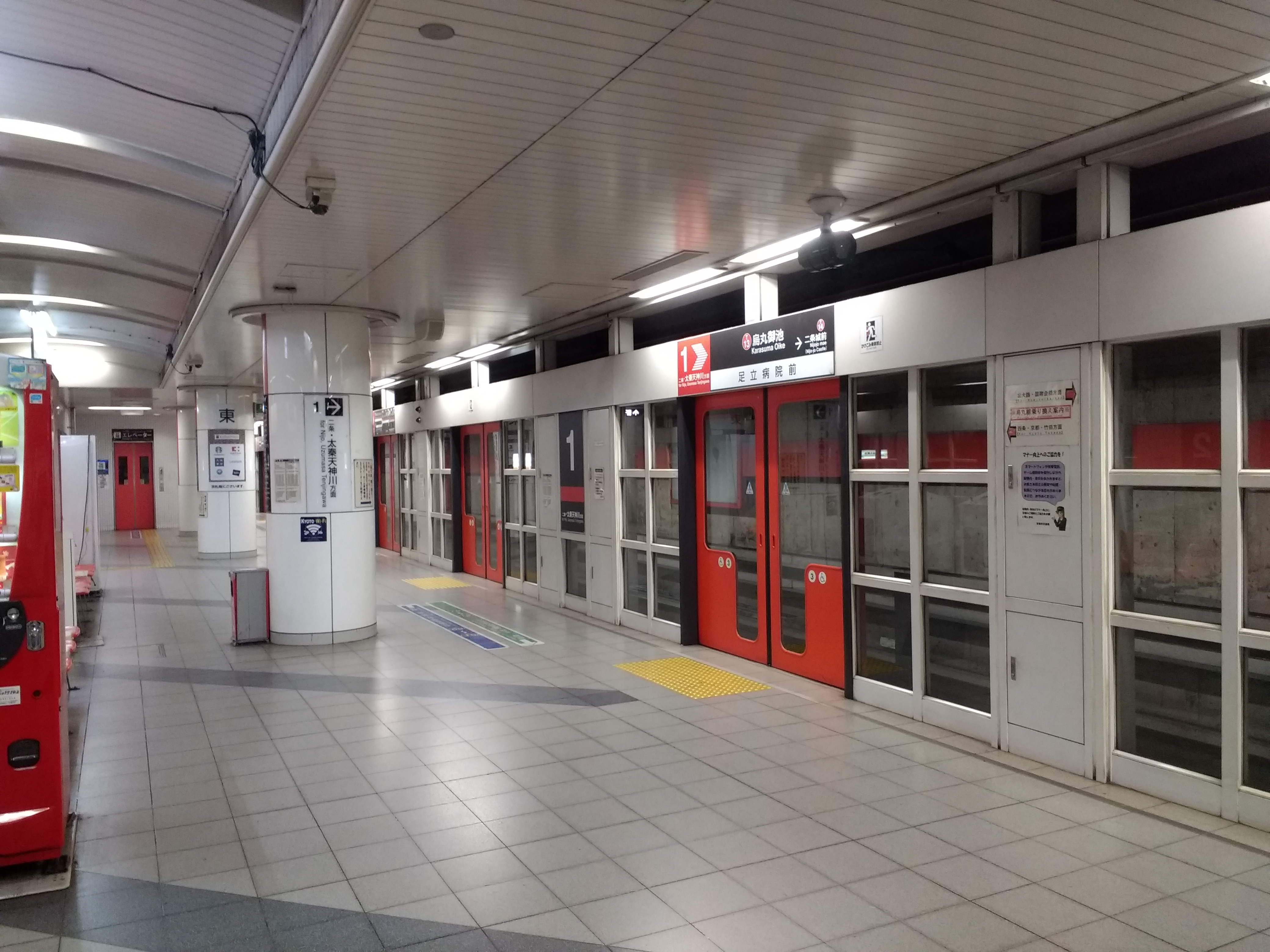 Karasuma Oike subway station (烏丸御池駅) on in Kyoto, Japan.